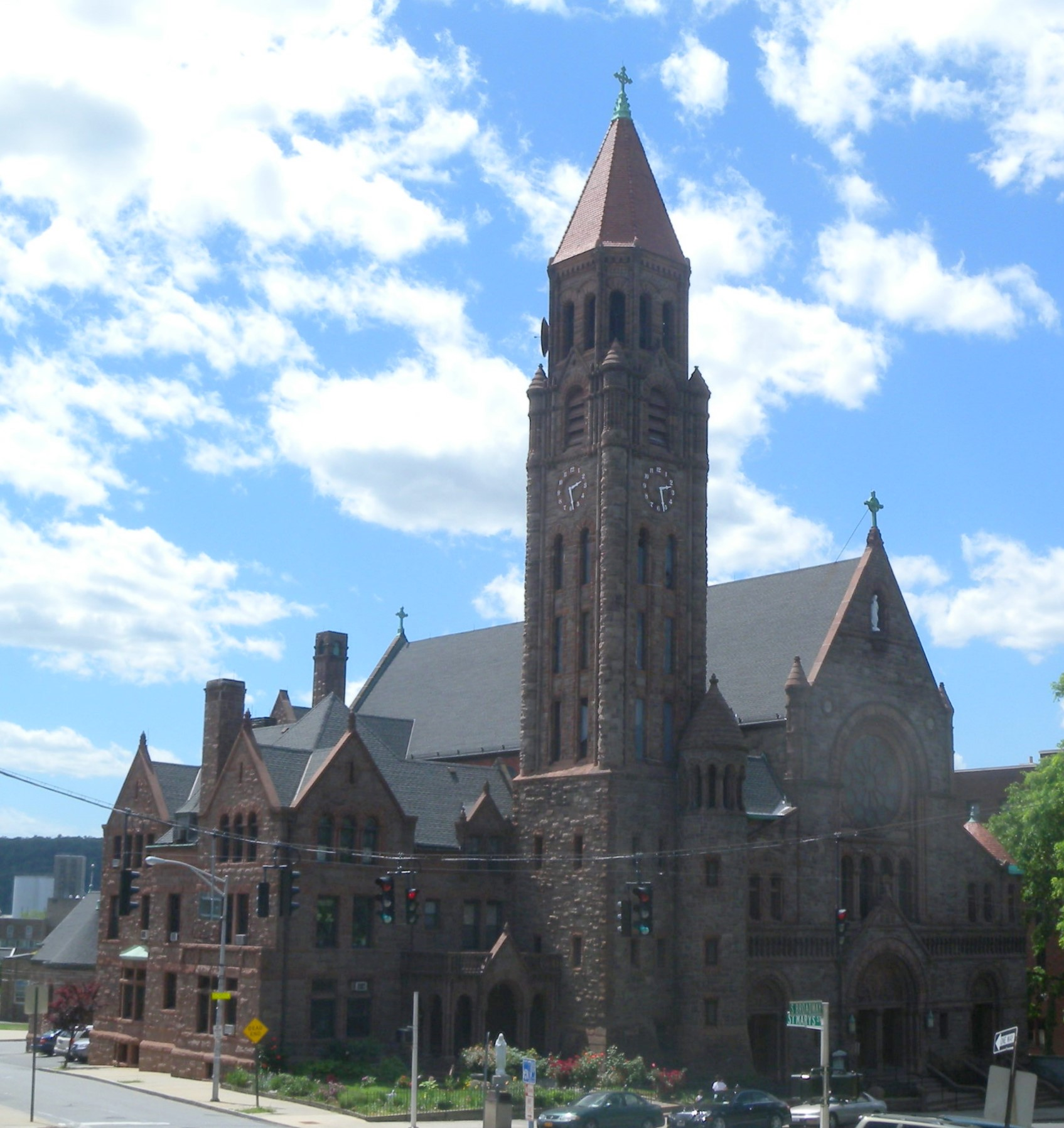 Looking west at Immaculate Conception of Mary Church from Police Headquarters grounds on a sunny early afternoon.